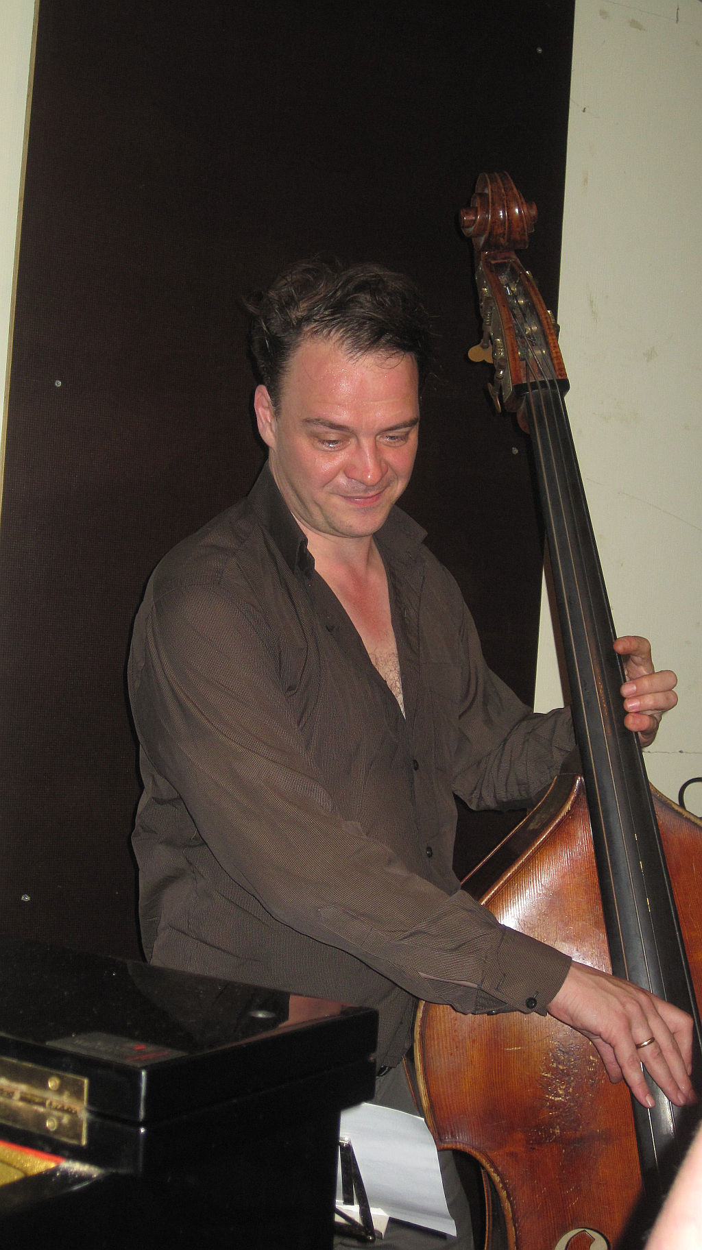 german jazz bassist Jan Roder from Berlin